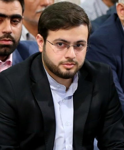 Mohsen Haji Hassani Kargar